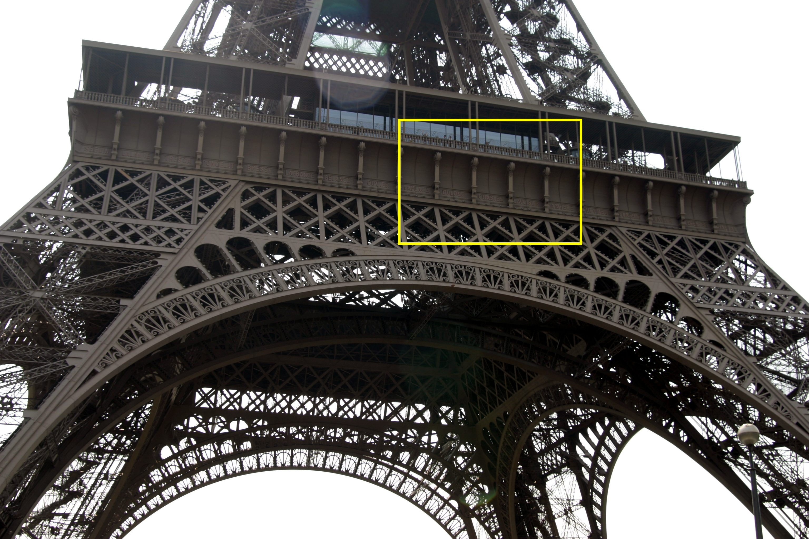 Modified version of Image:Tour-Eiffel-IMG_1647.jpg, highlighting a small area.